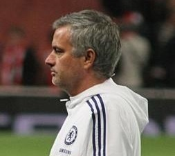 José Mourinho.